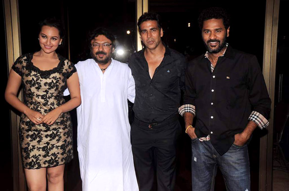 Sonakshi Sinha, Sanjay Leela Bhansali, Akshay Kumar, Prabhu Dheva at Success bash of 'Rowdy Rathore'